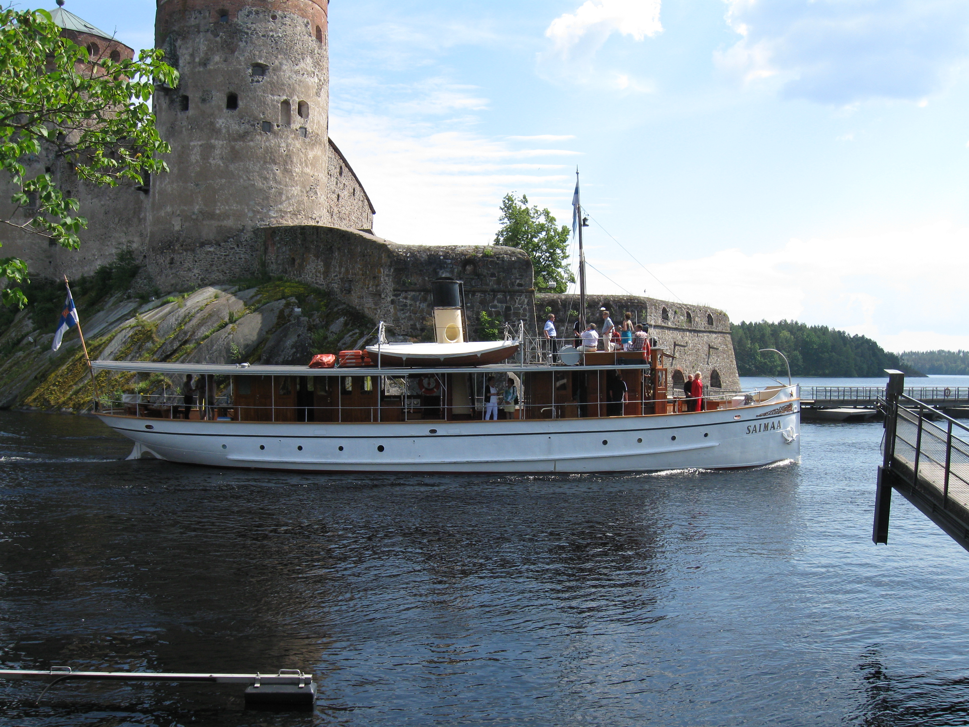 S/S Saimaa passing by the Olavinlinna castle in Savonlinna, Finland